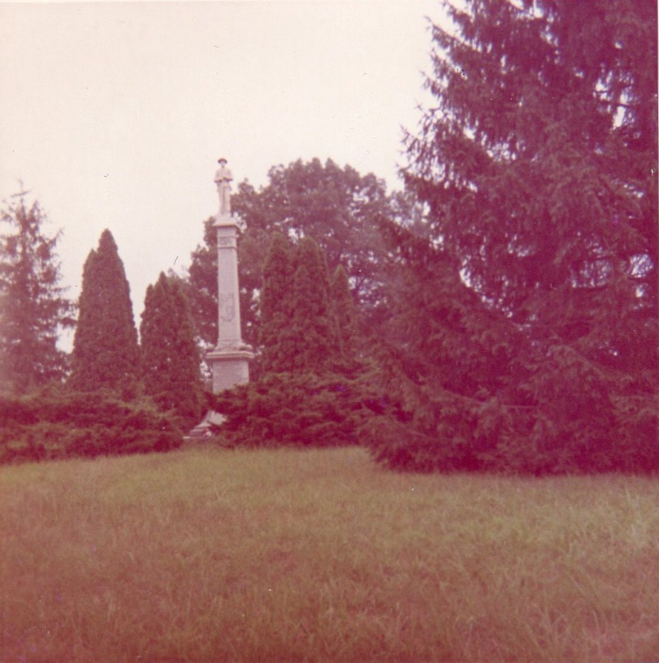 Spotsylvania Confederate Cemetery, Spotsylvania County, Virginia